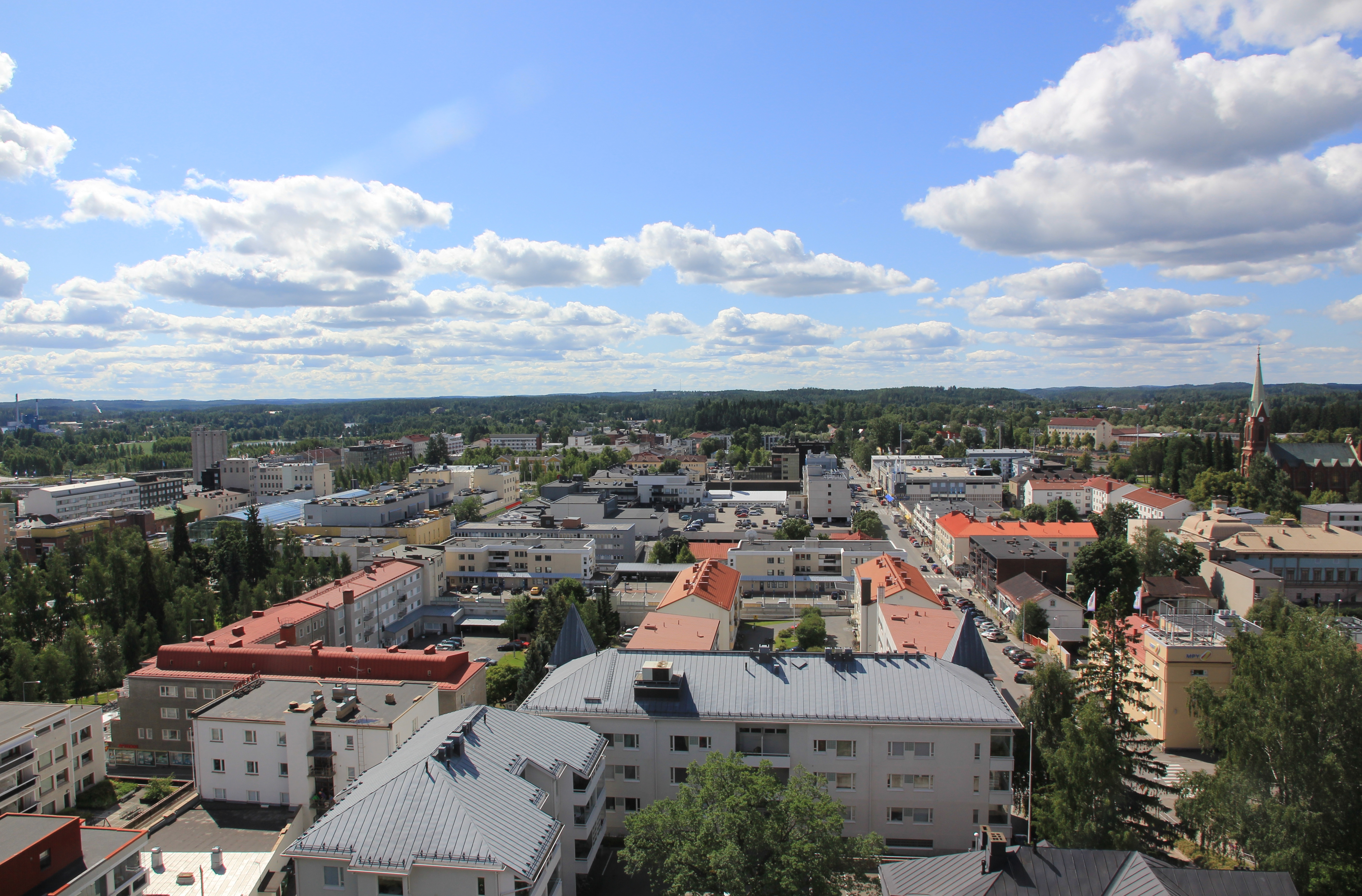 Mikkeli city centre around Mikonkatu street from Naisvuori water tower.